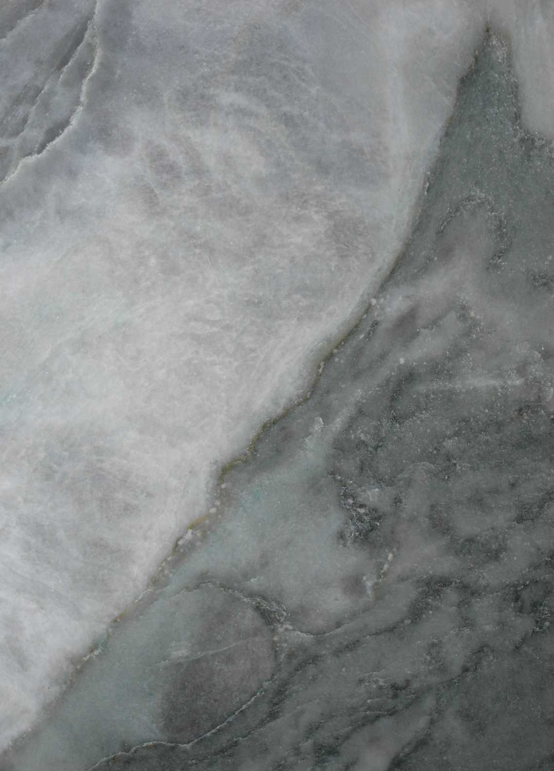 Marble Green of Styra, Greece